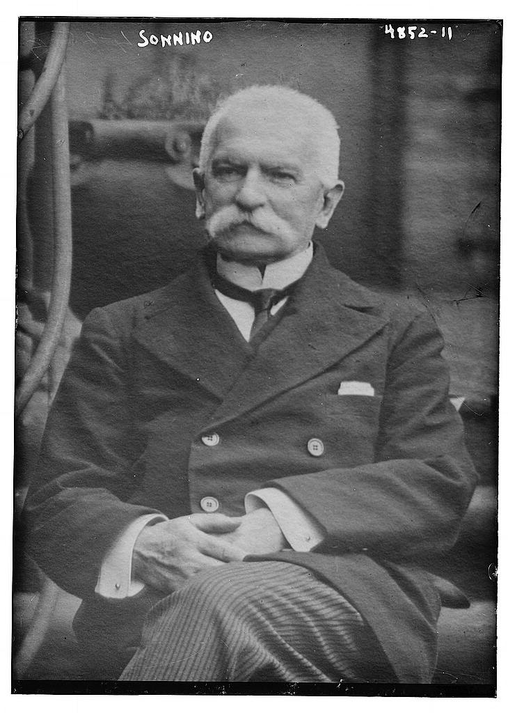 Italian politician, PM and Minister of Foreign Affairs, Sidney Sonnino.